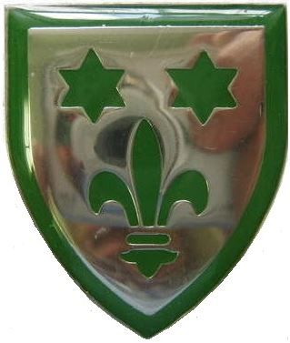 SADF era Reitz Commando emblem